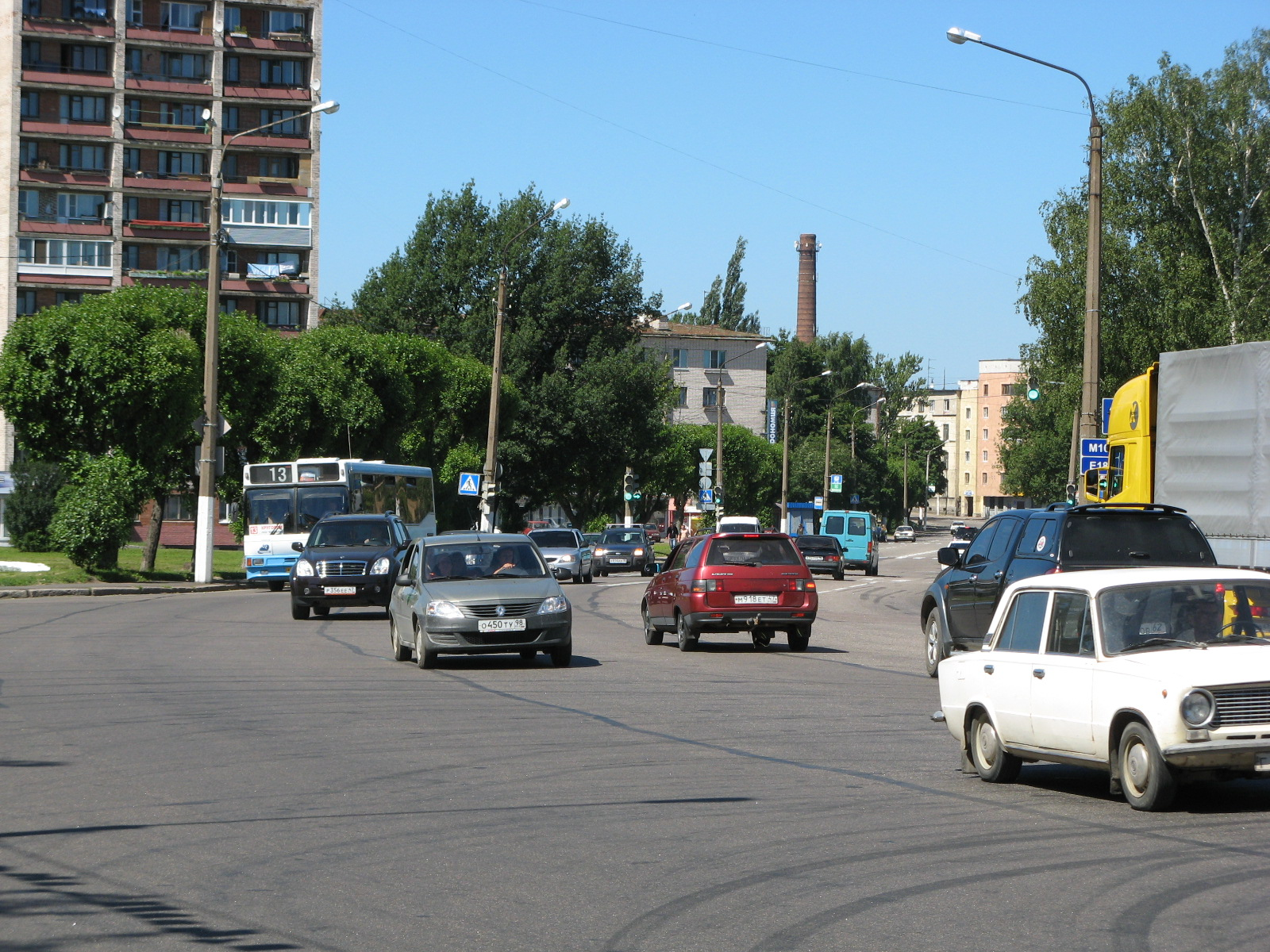 Leningrad road, Vyborg, Russia.